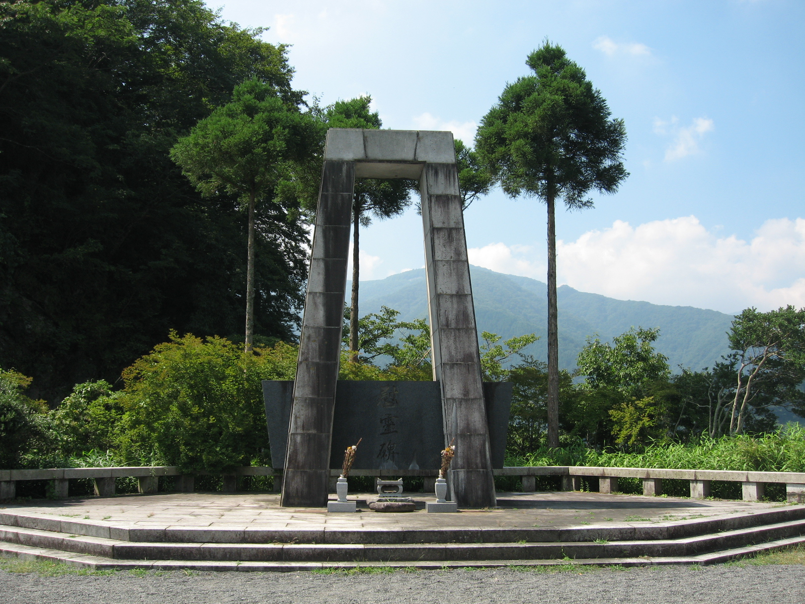 Cenotaph of 87 victims by the construction of Ogôchi Dam. Located beside Lake Okutama, Okutama, Tokyo, Japan.